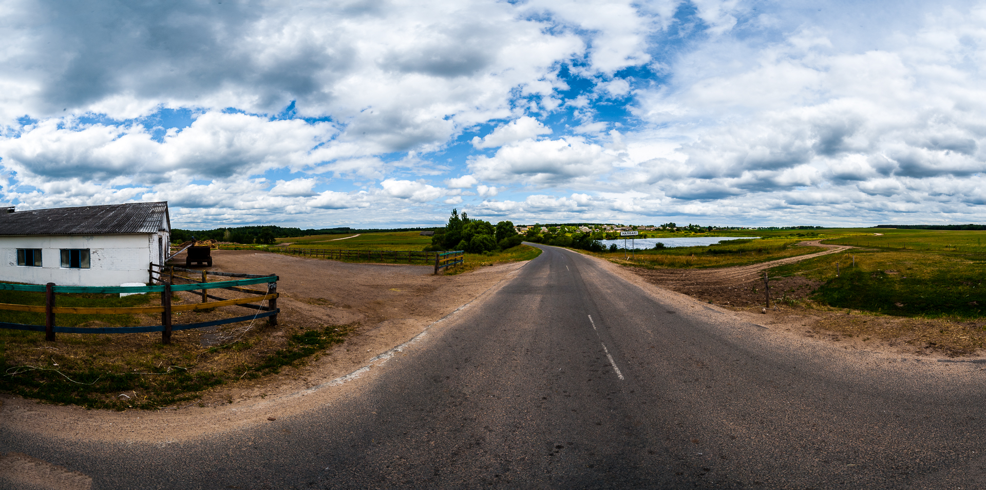 A panorama view from south direction